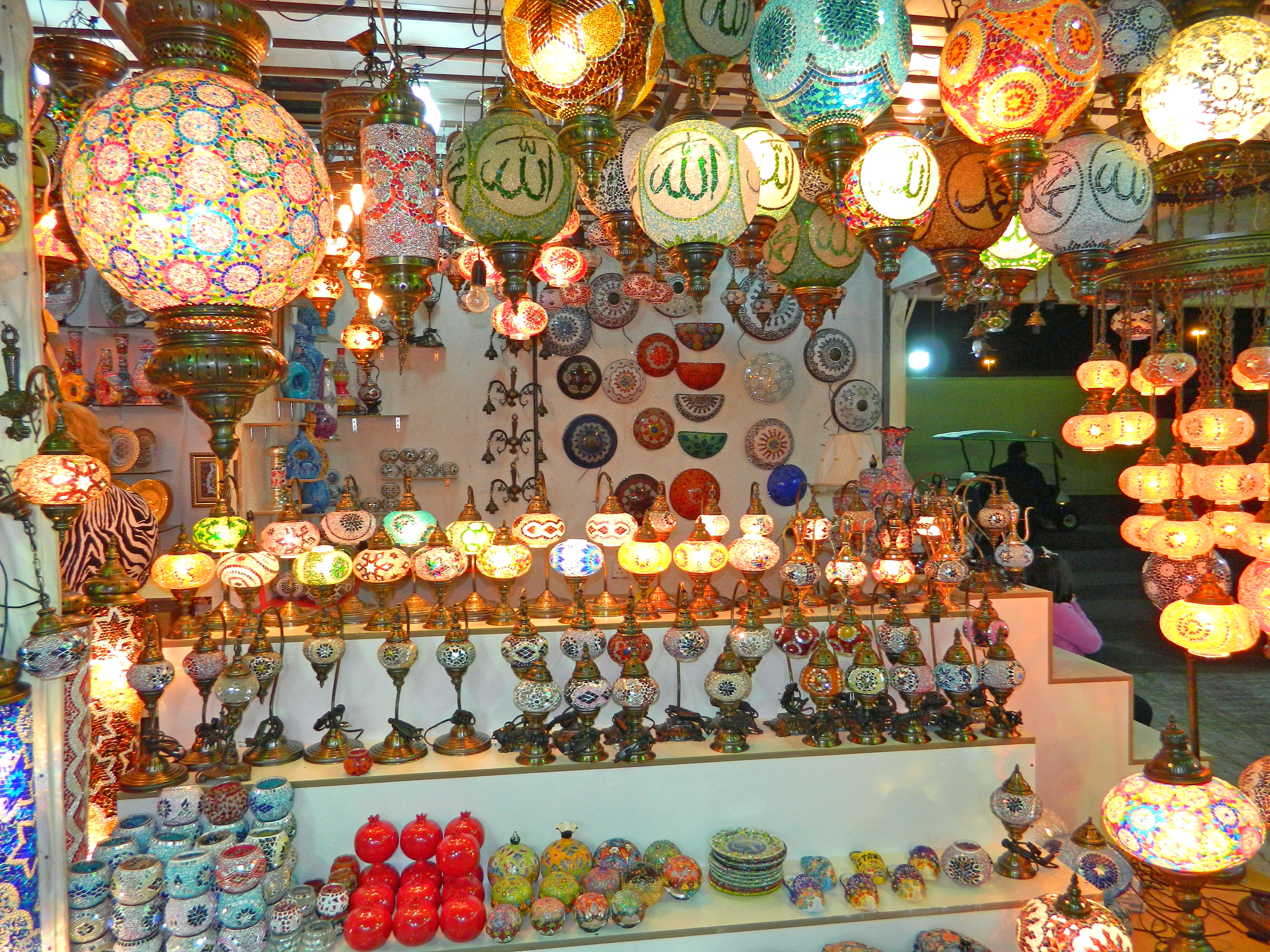 Traditional Decorative lamps at Turkish Stand at Dubai Global Village.